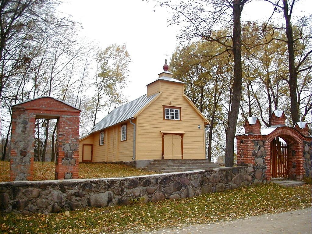 Saint Michael Archangel Roman Catholic church in Zosna, LatviaLatviešu: Zosnas Svētā Erceņģeļa Miķeļa Romas katoļu baznīca 2000-10-14